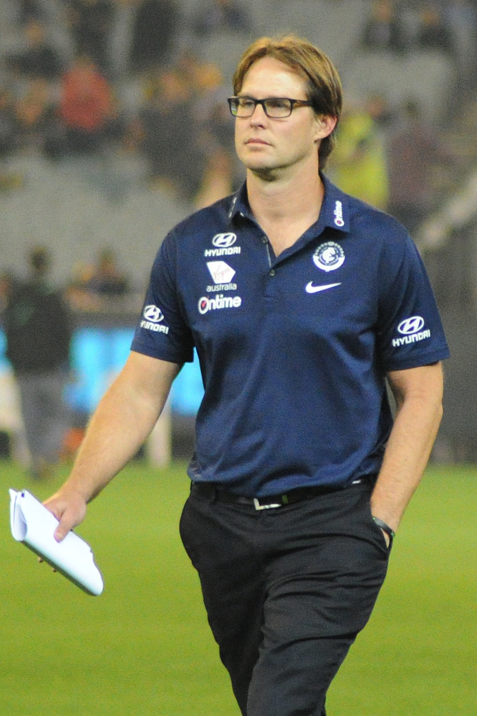 David Teague during the AFL round five match between Carlton and West Coast on 21 April 2018 at the Melbourne Cricket Ground in Melbourne, Victoria.